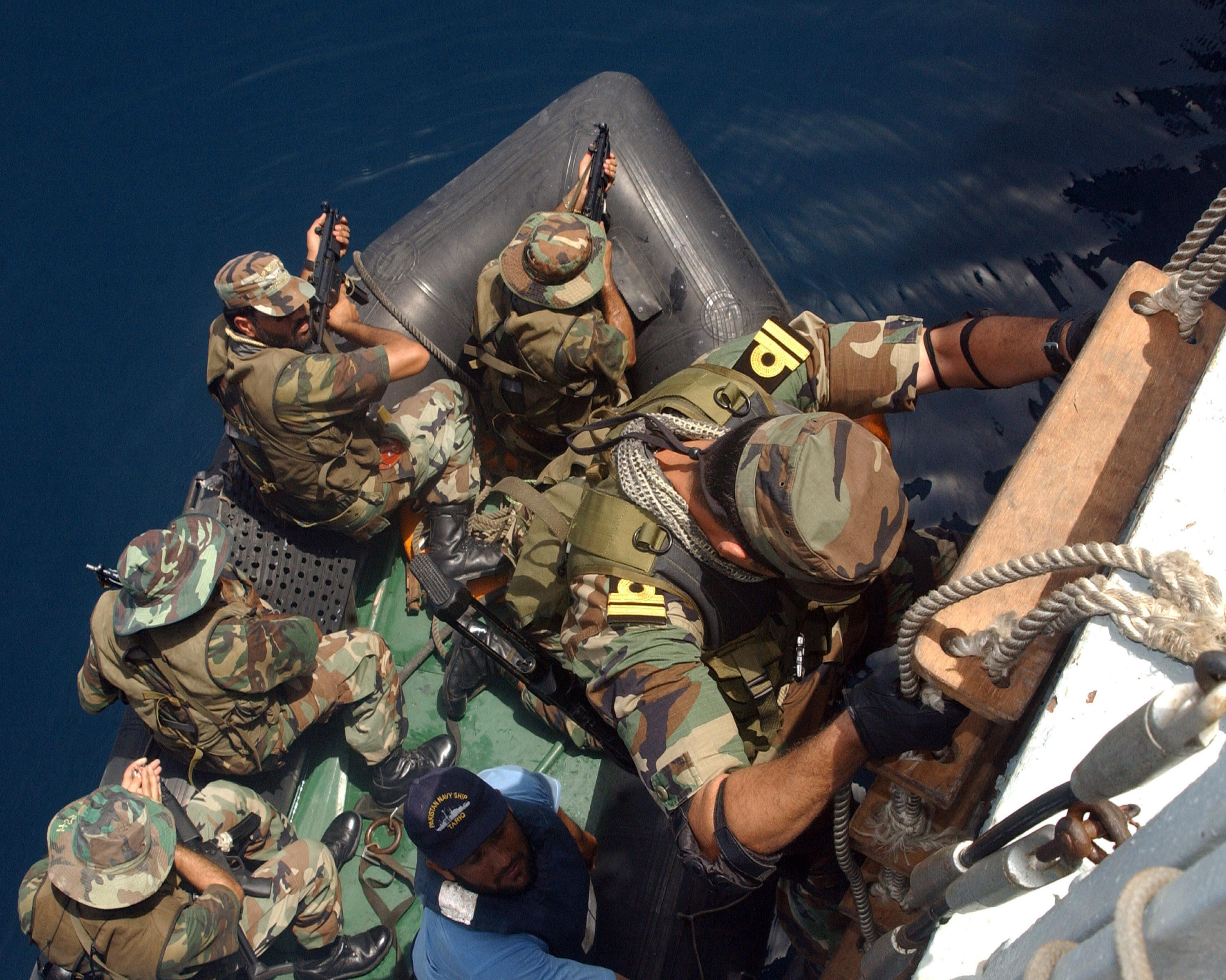 Visit Board Search and Seizure (VBSS) Team Captain Uzair Khalid, from Pakistani Naval ship (PNS) Tariq's (DDG 181) prepares to board a rigid hull inflatable boat (RHIB) during a drill in the Gulf of Oman.